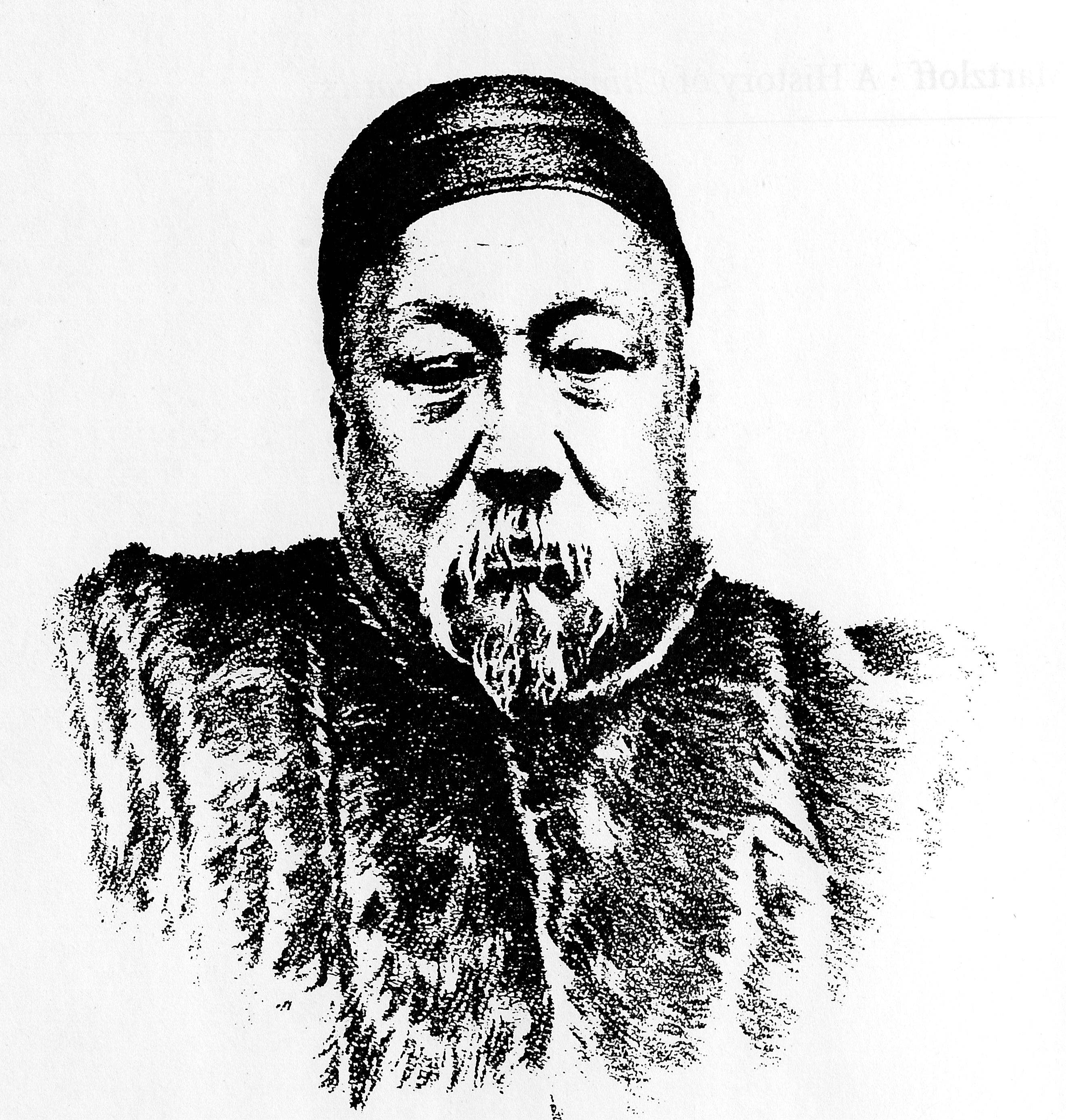 Portrait of Qing Dynasty mathematician Li Shanlan 清代数学家李善兰像